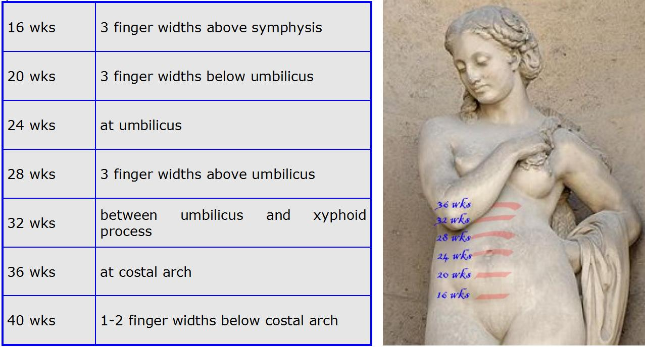 Show the change of fundal height during various stages of pregnancy